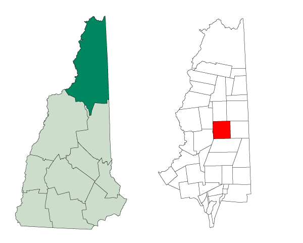 Map of a municipality in Coos County, New Hampshire